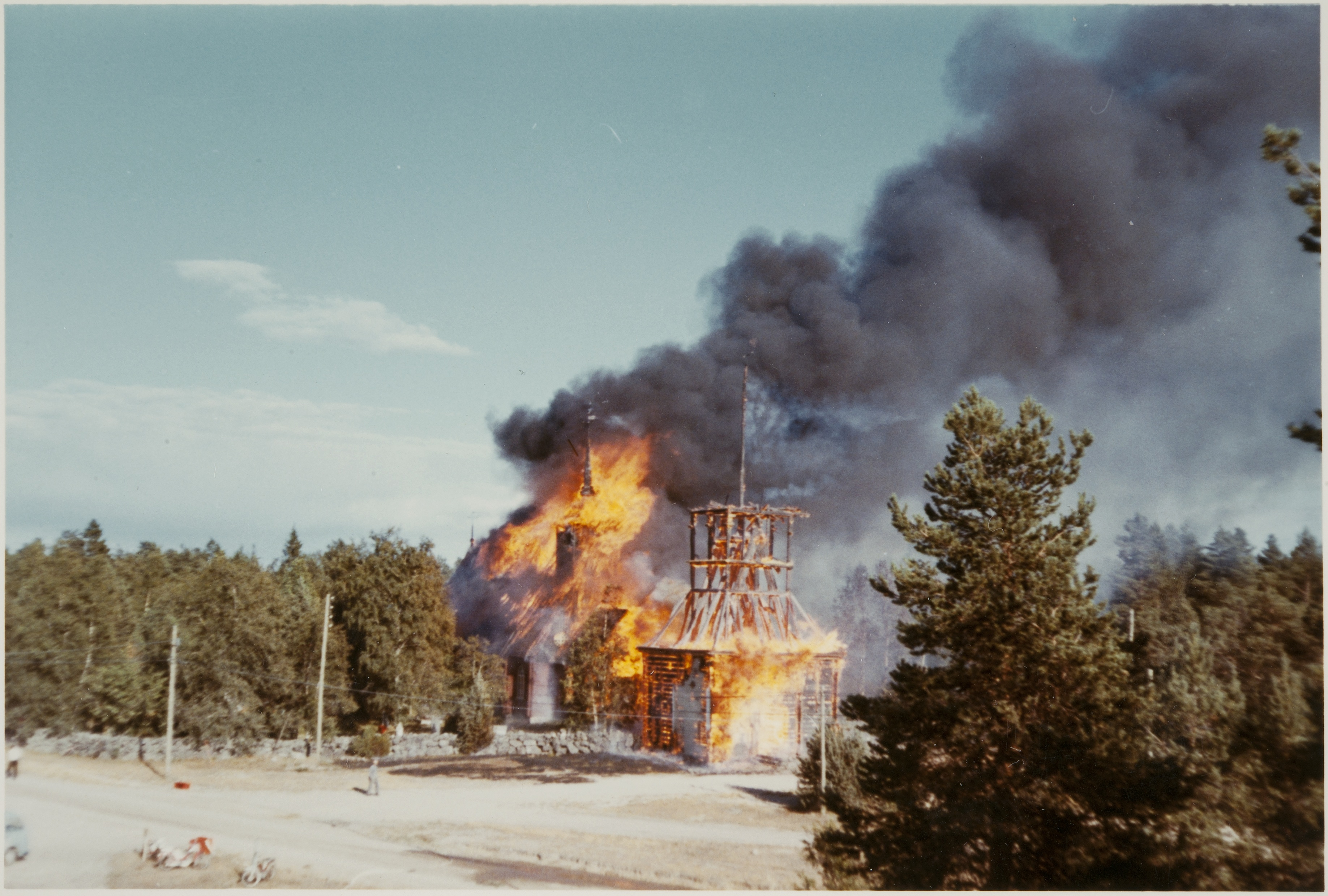 Hailuoto church and belltower on fire.